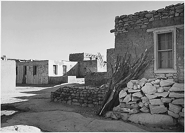 "Looking across street toward houses."